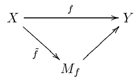 commutative diagram for mapping cylinder